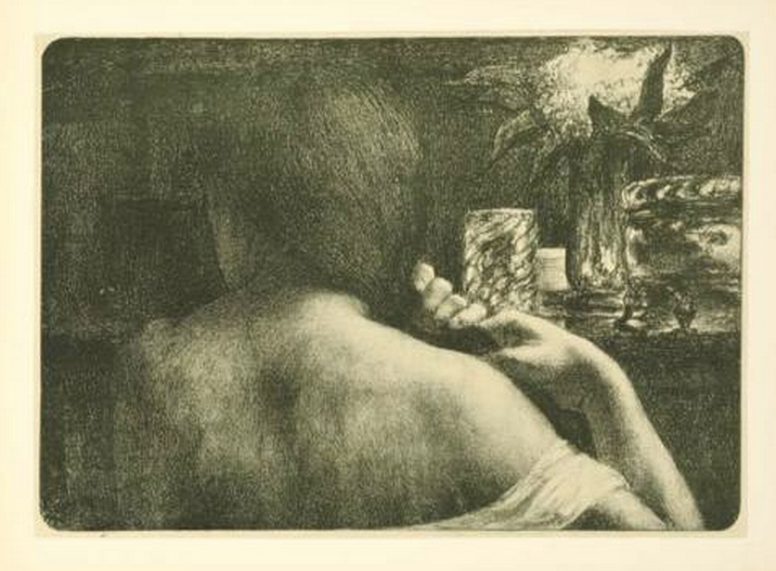 Chevelure by Jules Flandrin, lithographic print from L'Estampe moderne, vol. I, Paris, F. Champenois.